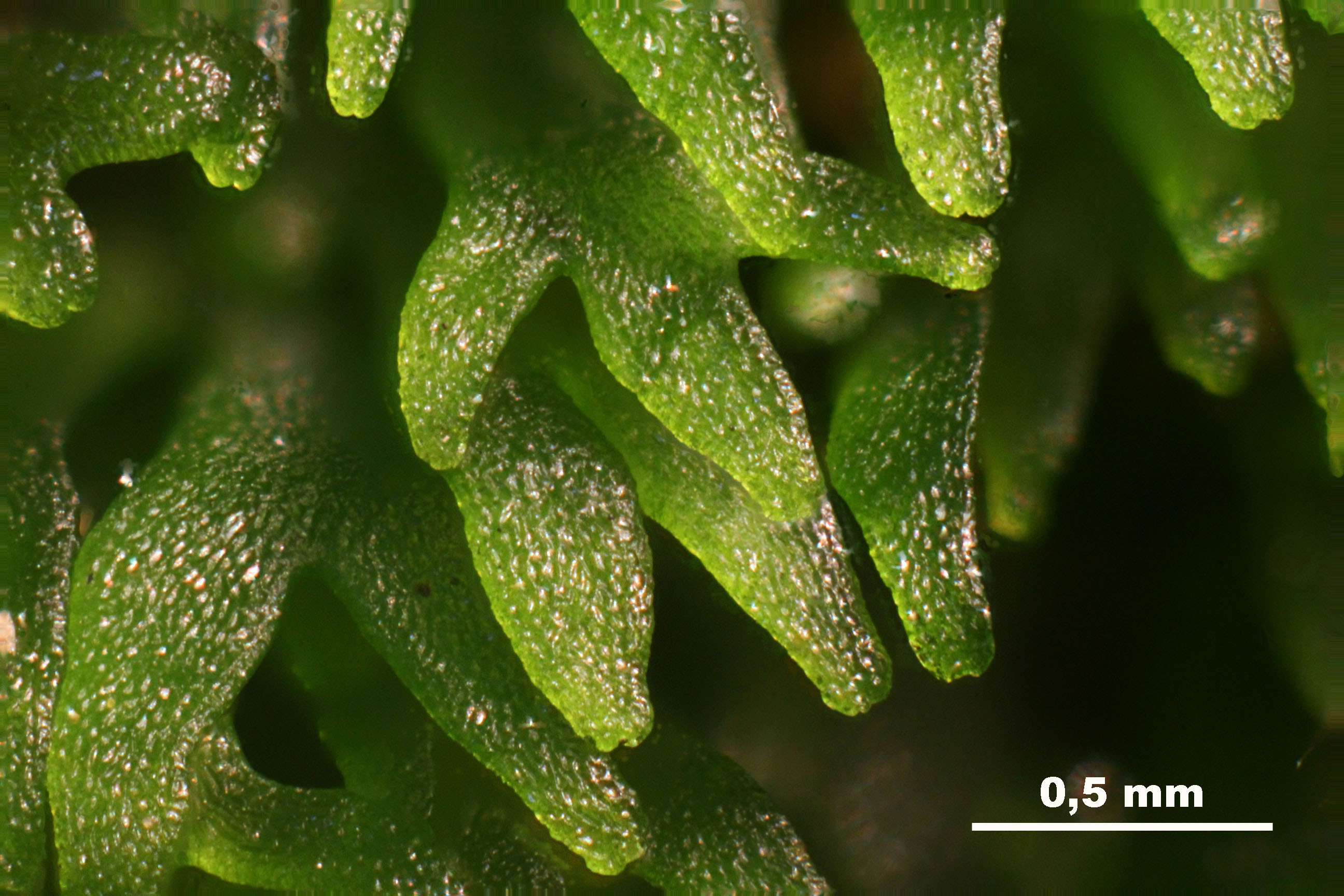 Riccardia palmata